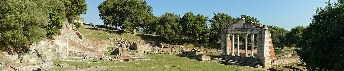 Ruins of ancient Apollonia, Albania